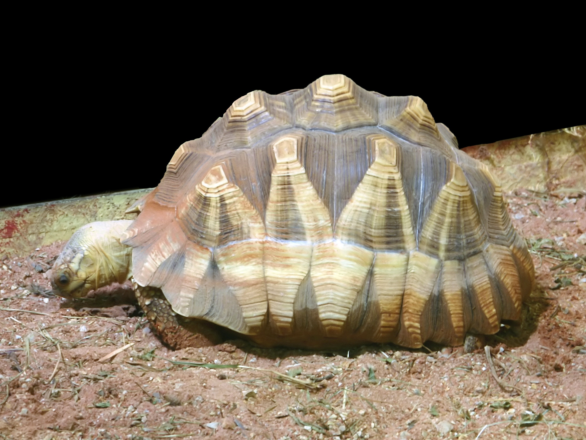 Endemic Madagascan tortoise, of which there are only an estimated 400 in the wild. Here at Pairi Daiza, Brugelette, Belgium